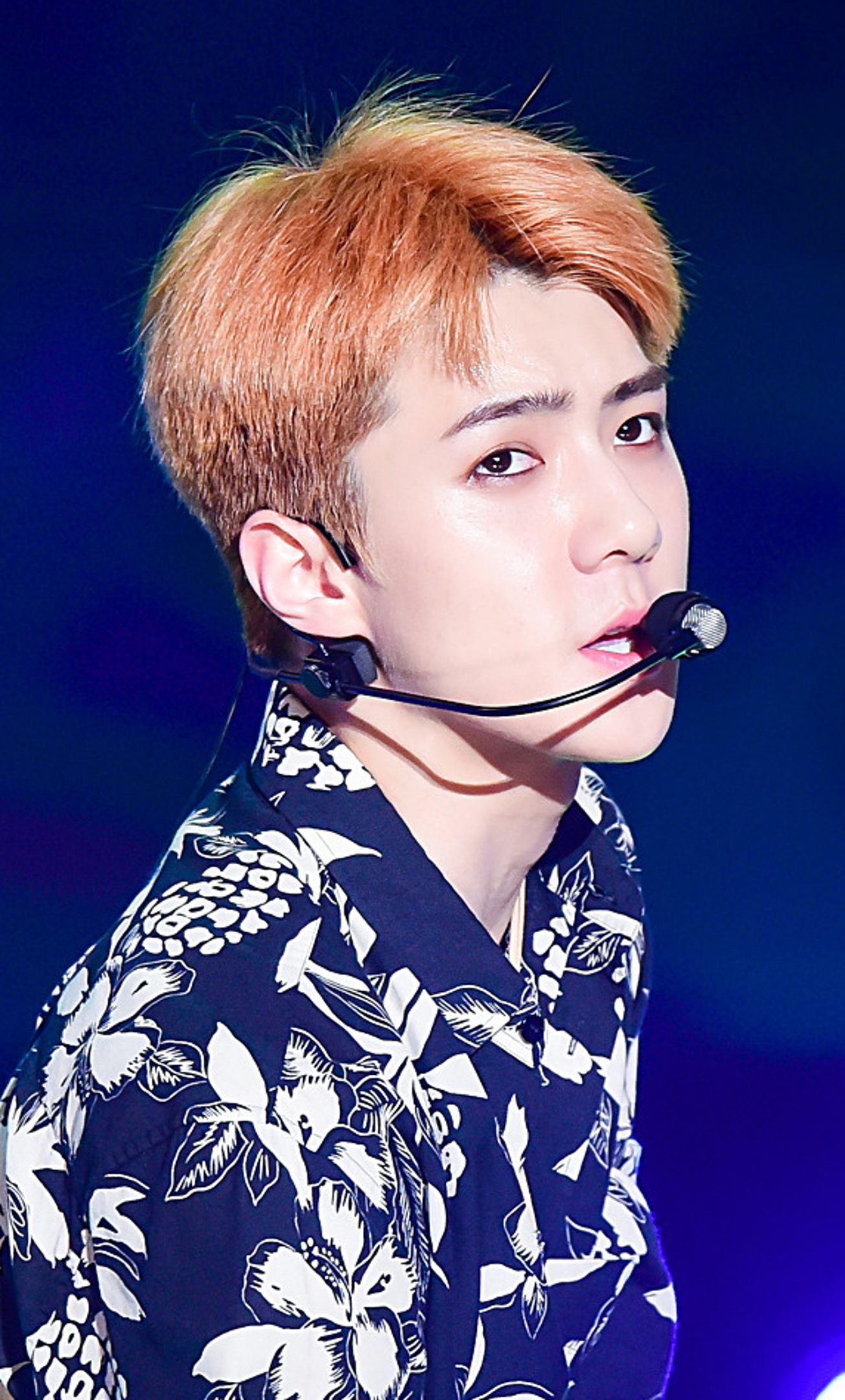 Oh Se-hun at Show! Music Core on July 24, 2017.